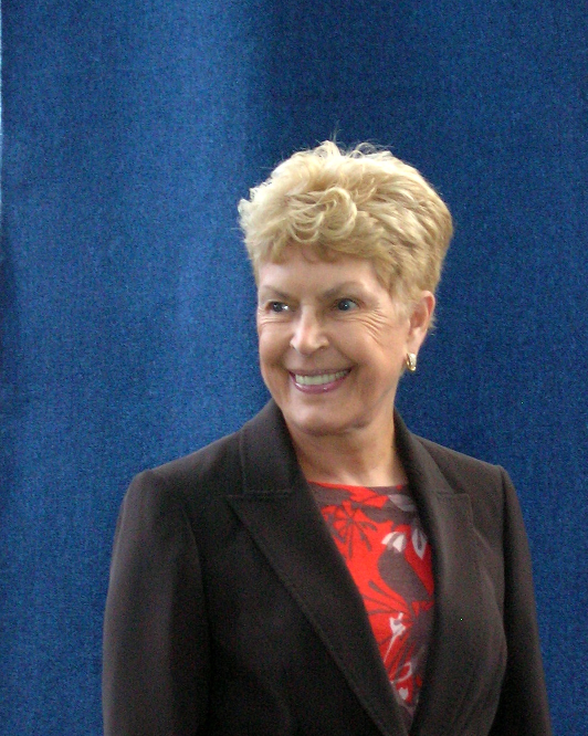 Ruth Rendell, writer